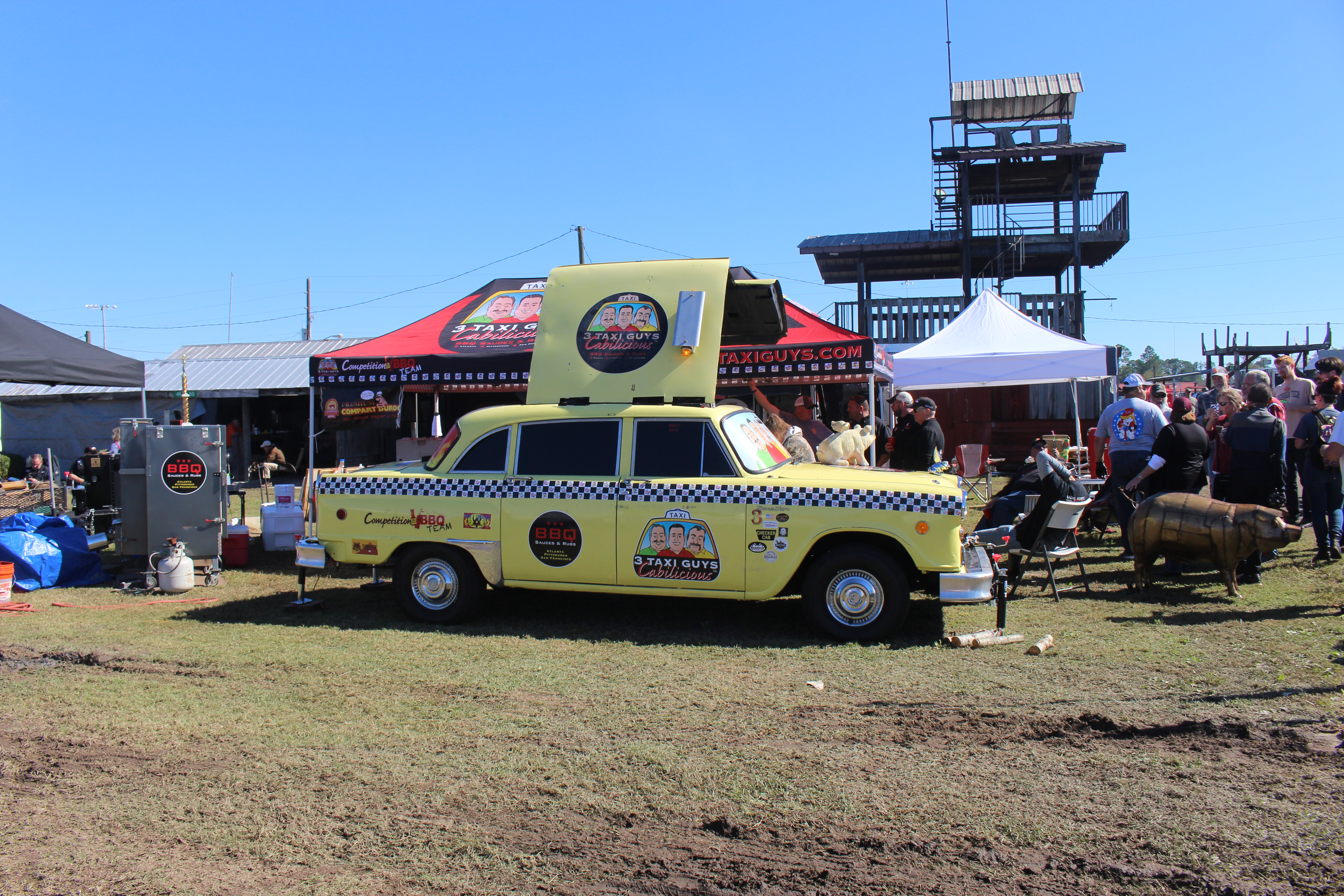 Big Pig Jig, Vienna, Dooly County, Georgia